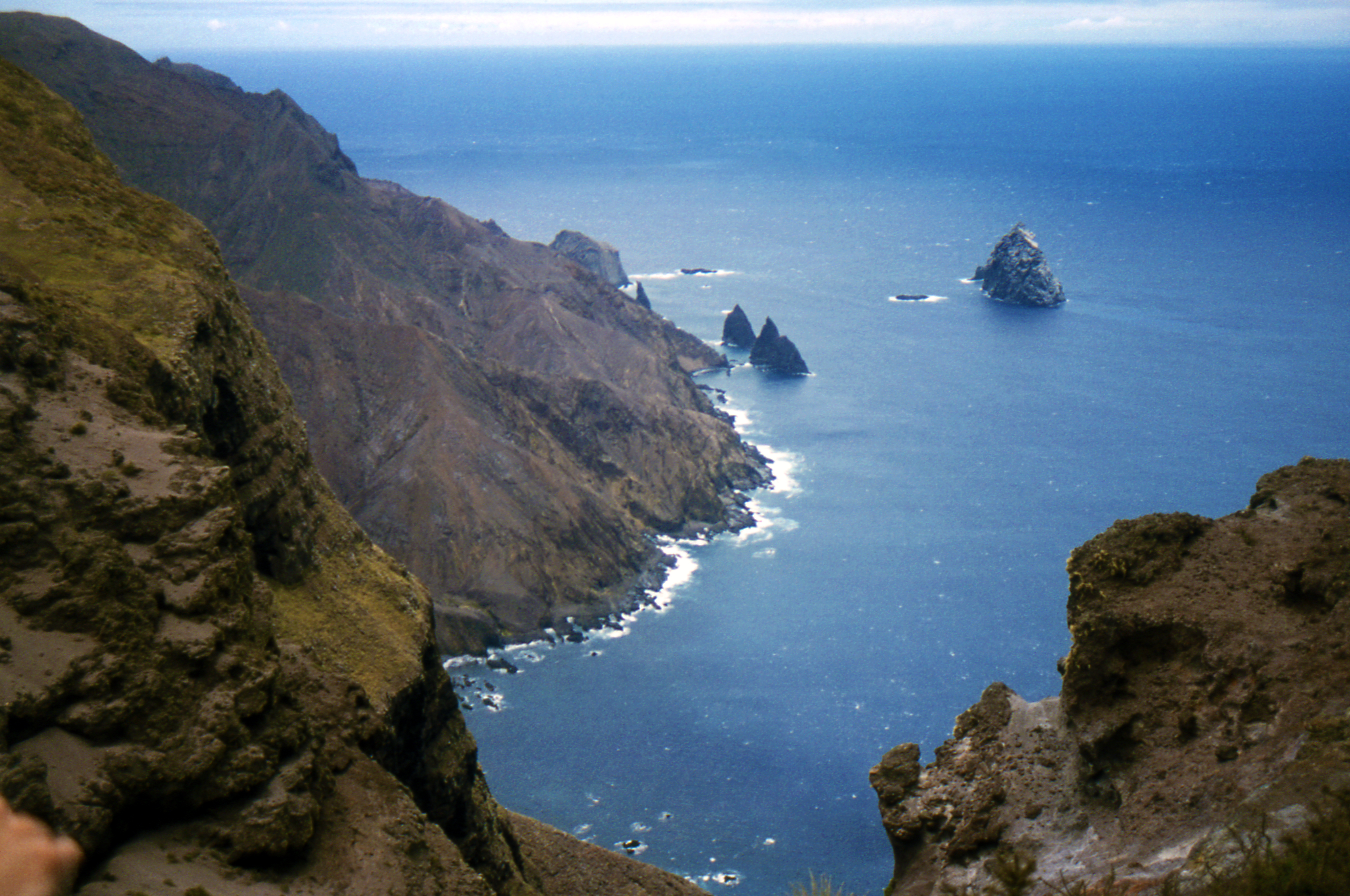 Saint Helena Island.